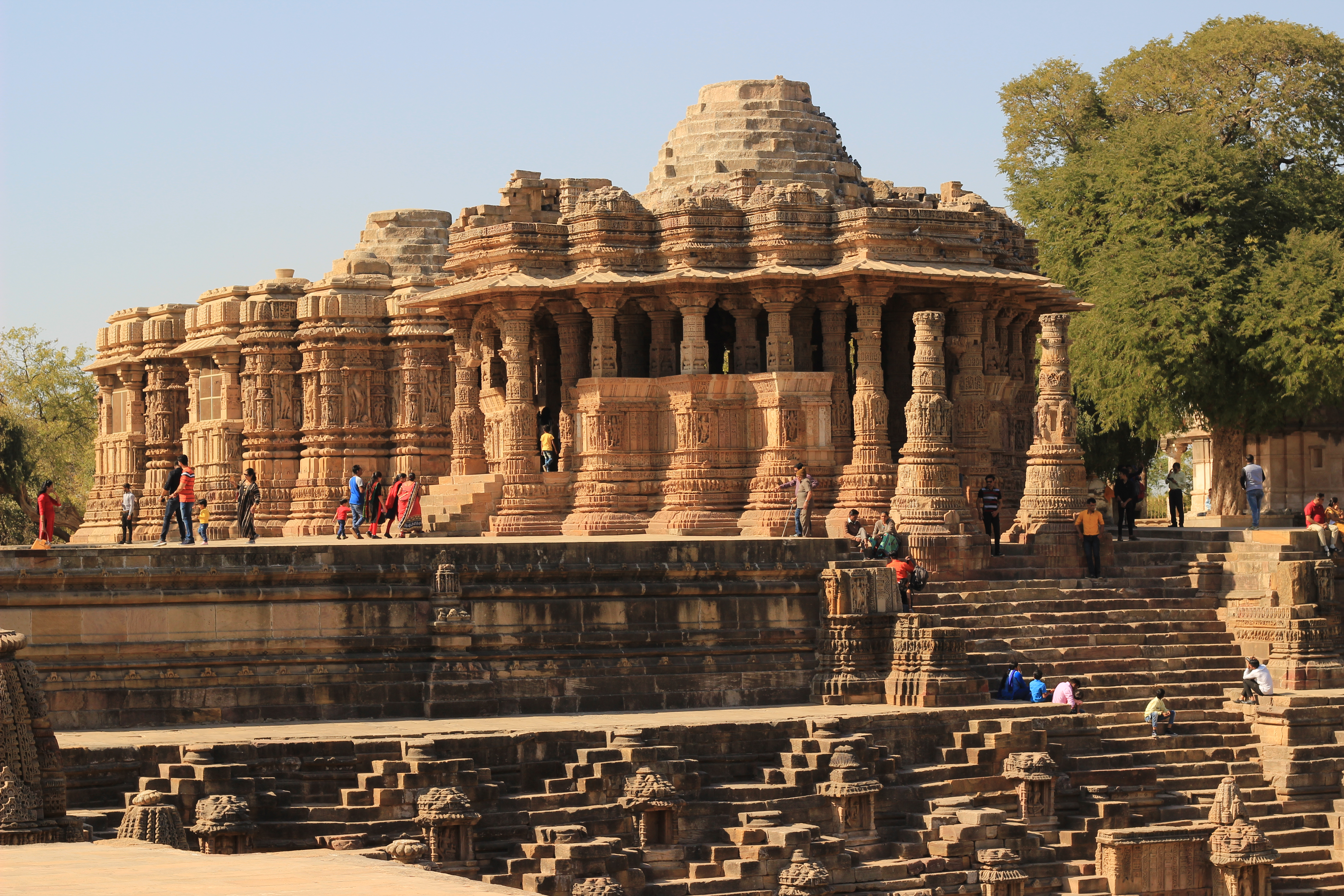 Side View of Sun Temple, Modhera Sun temple at Modhera in Mehsana district is a finest example of temple architect in Gujarat, built in 11th century A.D. on the bank of river Pushpavati, a tributary of river Rupen situated at distance of 30 kms from Patan city. It is build on a platform facing east, in the region of Solanki ruler Bhimdeva I(1022 - 1063 A.D.)